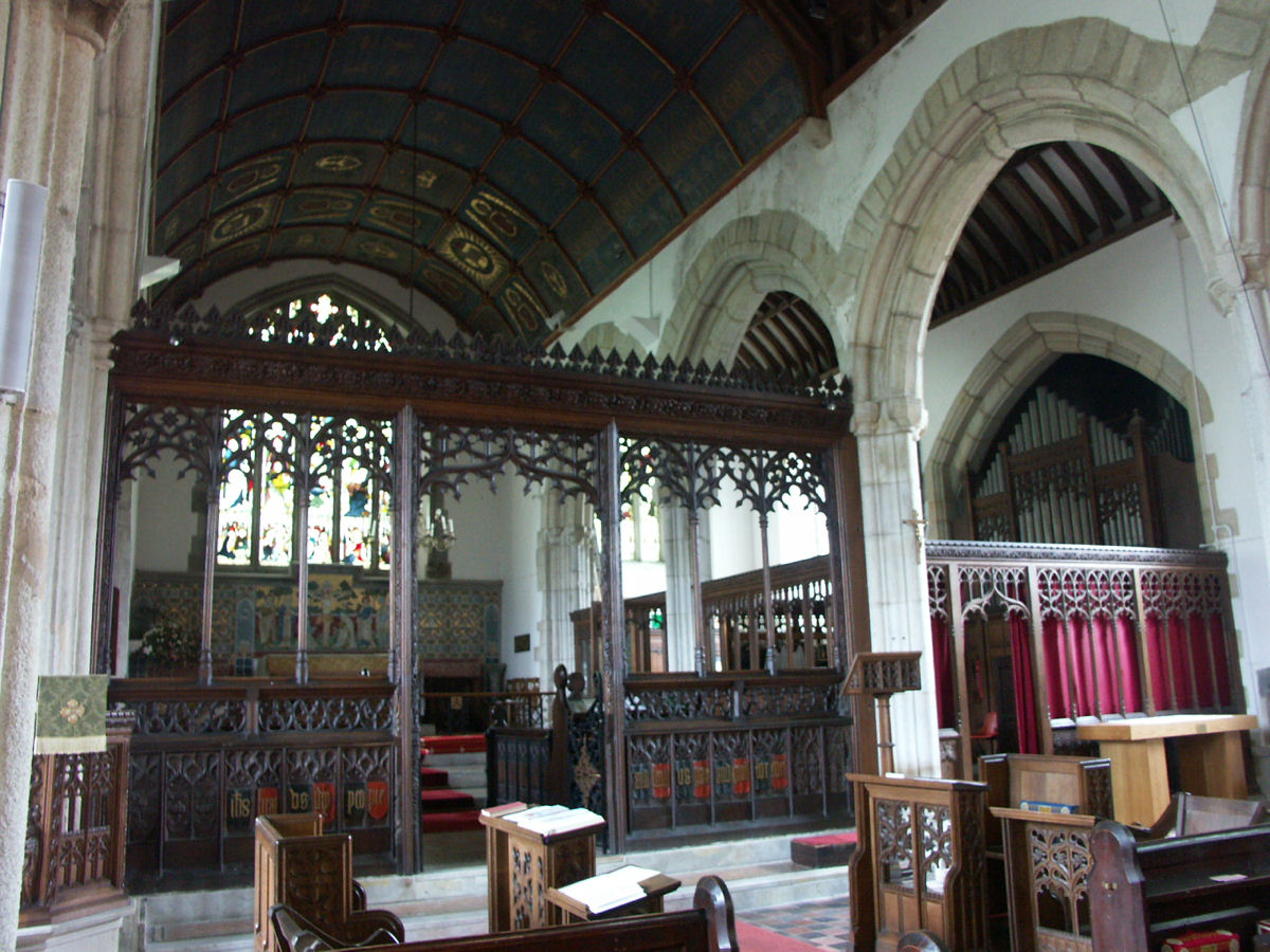 St. Probus and St. Grace, Probus, England